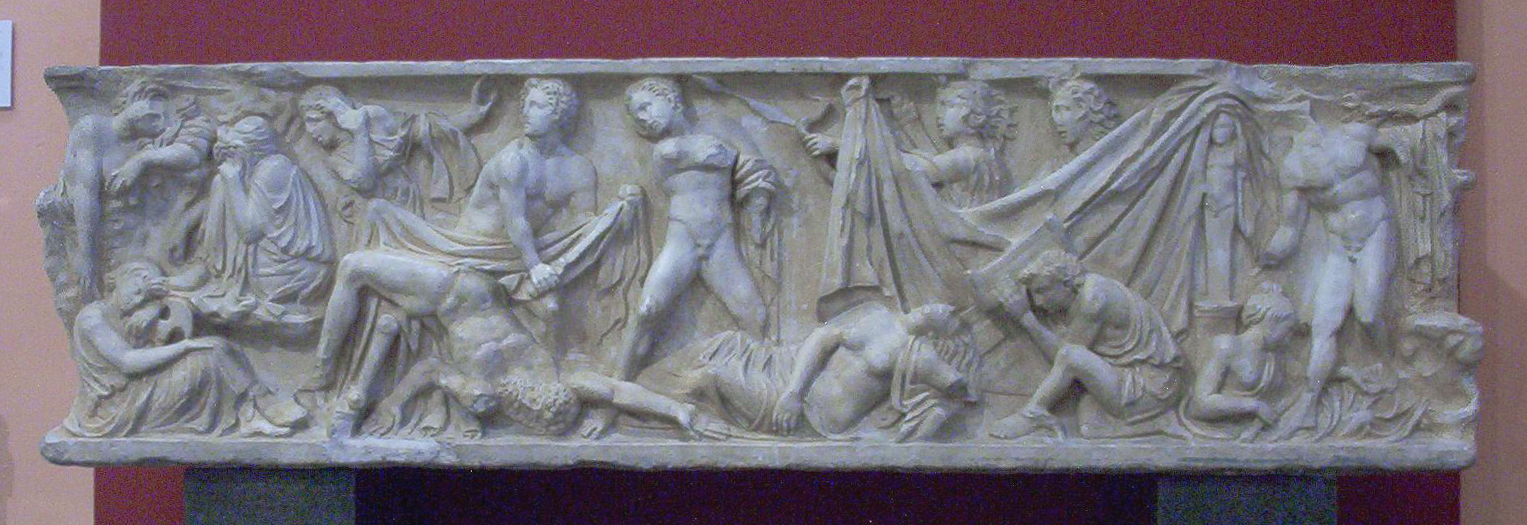 A Roman sarcophagus with relief figures representing scenes from The Oresteia.